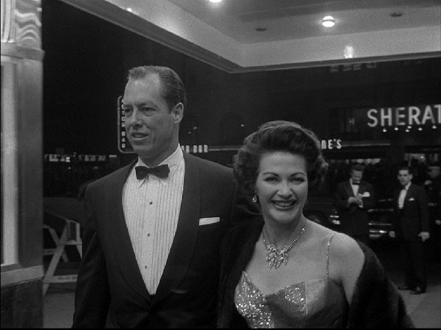 Yvonne De Carlo and her husband Bob Morgan at the New York premiere of The Ten Commandments.